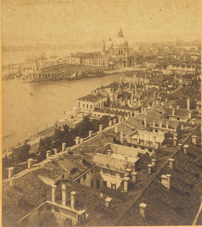 Carlo Ponti (ca. 1833-1895) - View from the campanile of San Marco (Venice) (Detail). Stereo card.